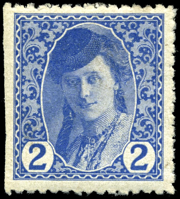 Bosnia and Herzegovina 2h newspaper stamp of 1913 perforated for general use in February 1919 under Yugoslavian postal authorities in Bosnia. Michel N° 23.